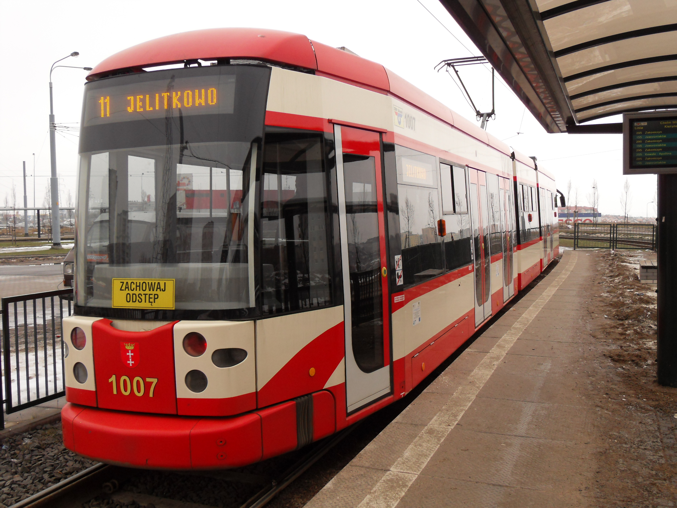 A Bombardier NGT6/2 tram in Gdańsk - the rear.